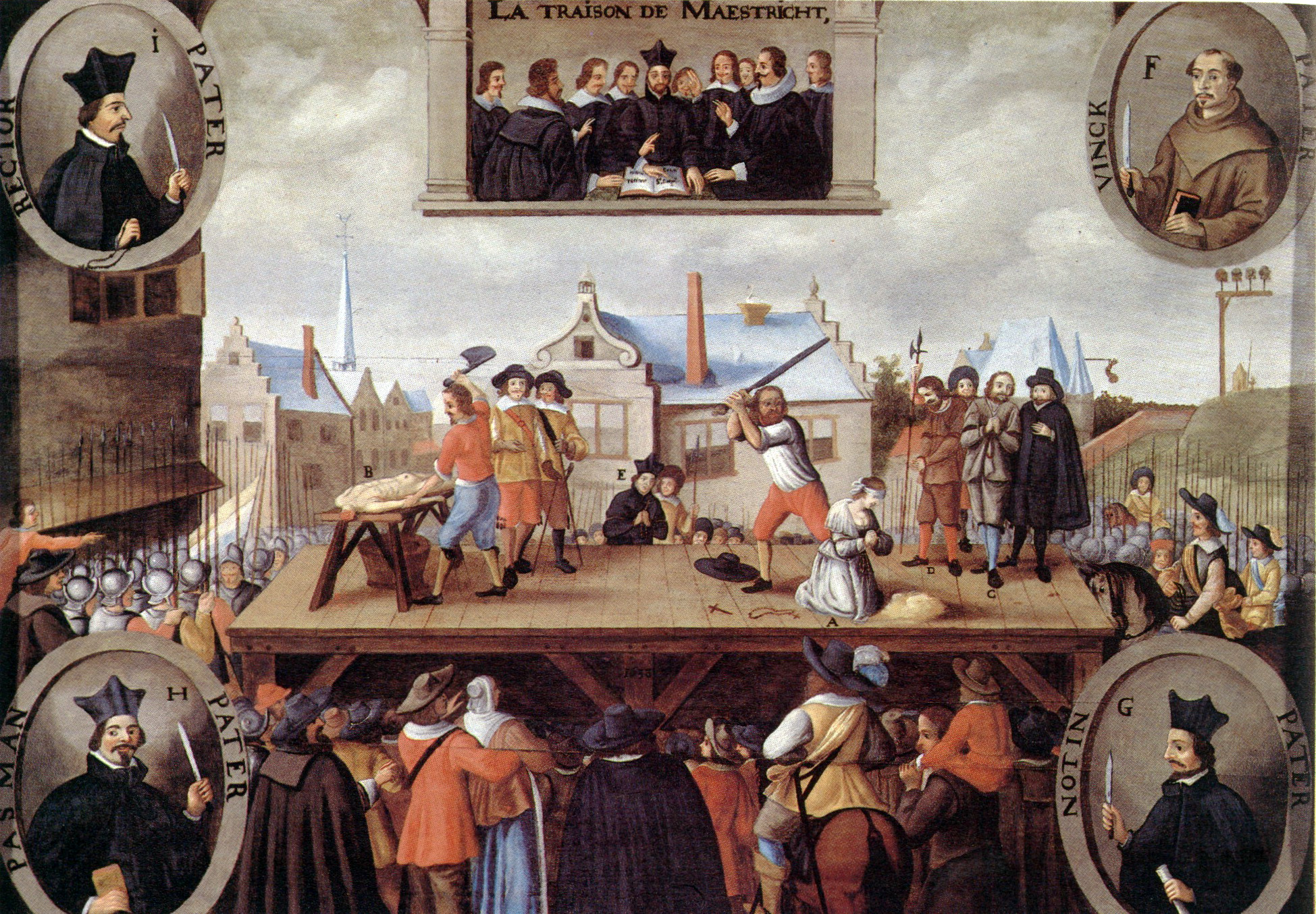 Anonymus, 1638 The Maastricht Treason. The painting depicts the beheading of the 9 "traitors", who had been accused of conspiring to deliver the city into the hands of the Spanish troops. In the corners the portraits of the main conspirators. Top left: the rector of the Jesuit school, Jean-Baptiste Boddens; top right: the Franciscan friar Servaes Vinck. Bottom left: the Jesuit brother Gerard Pasman; bottom right: the Jesuit priest Philippe Nottin (collection of Bonnefantenmuseum, Maastricht, Netherlands).